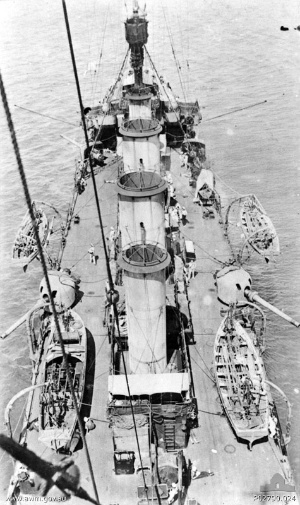 AWM caption : "At sea. c. 1913. Detailed shot of the cruiser HMAS Melbourne taken from the top of the forward mast (foremast). Note the various ship's boats with oars stowed and the detail of four of the ship's 6 inch gun mountings and its four funnels." Comment : The guns are BL 6inch Mk XI.